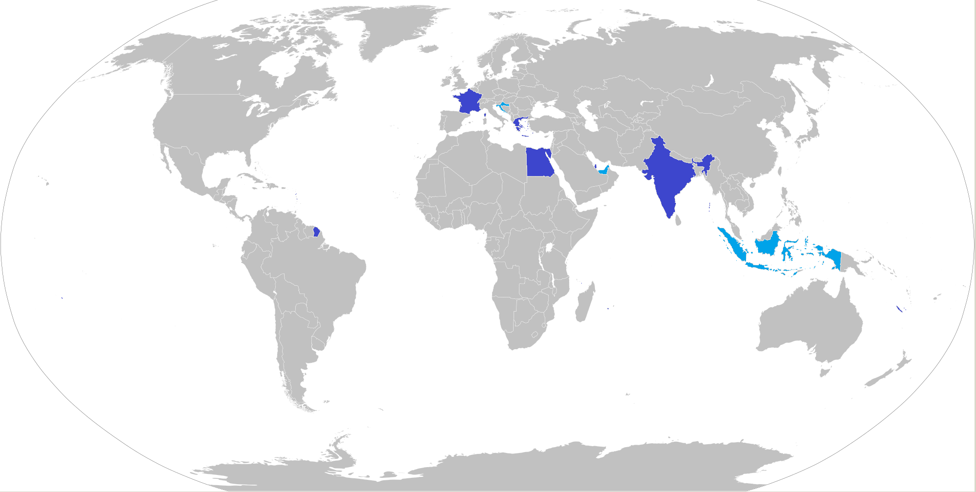 Rafale Operators